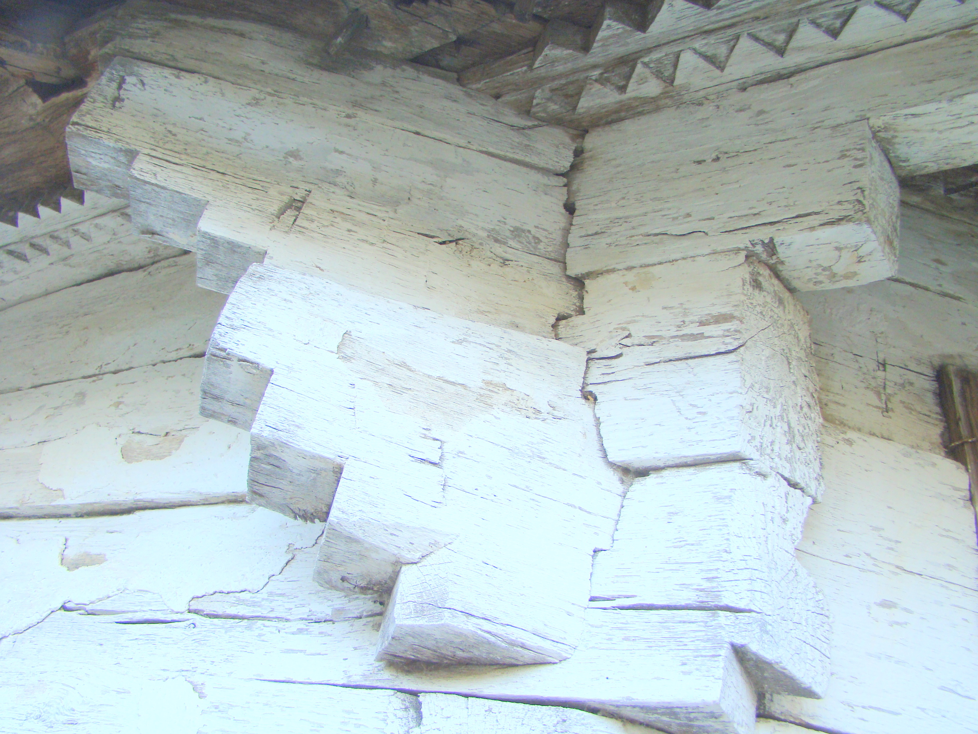 Wooden church in Crasna-Ungureni, Gorj county, Romania